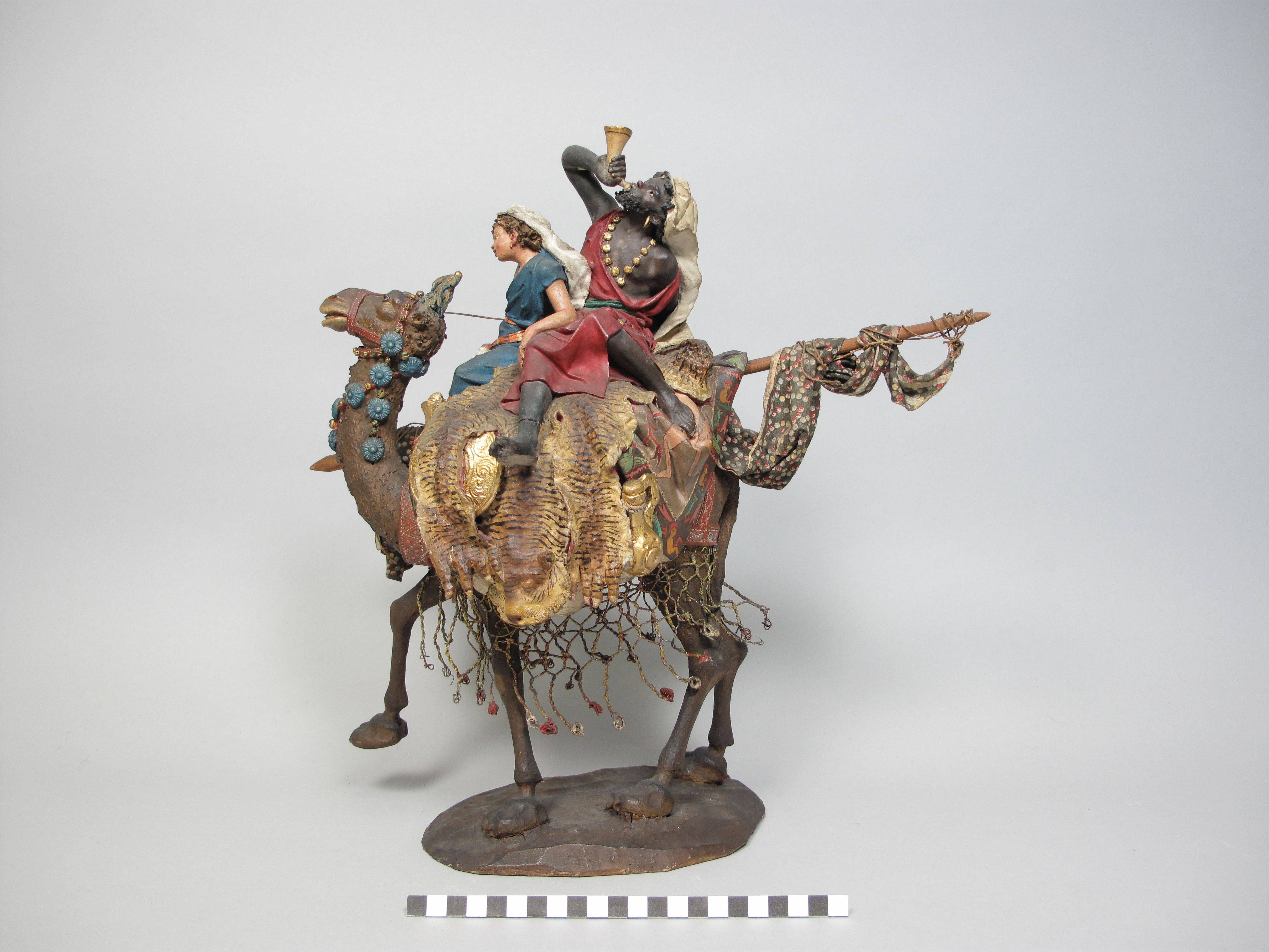 Figure of nativity scene made by Domènec Talarn